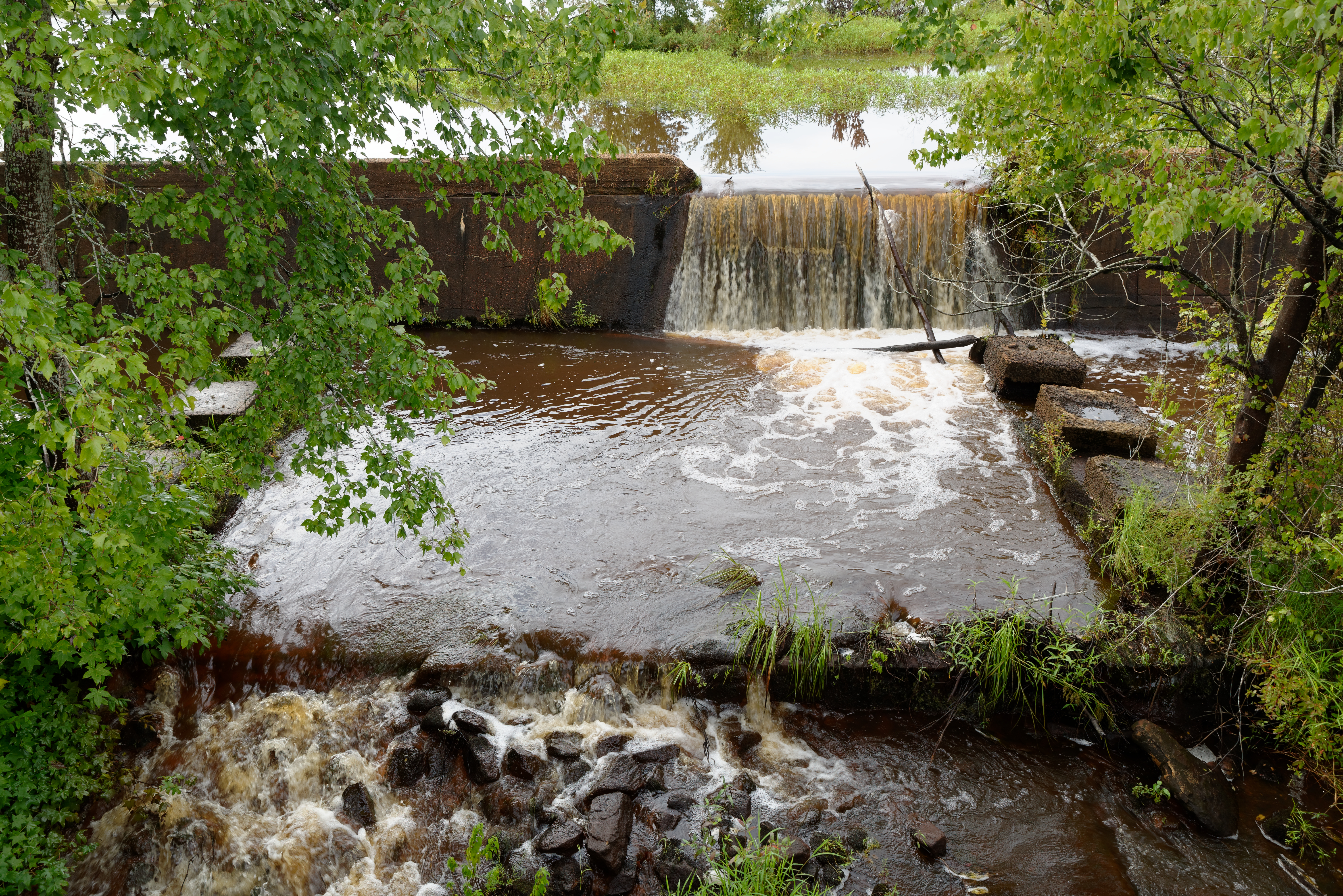 Myrick's Mill possible foundation, Twiggs County, Georgia, US